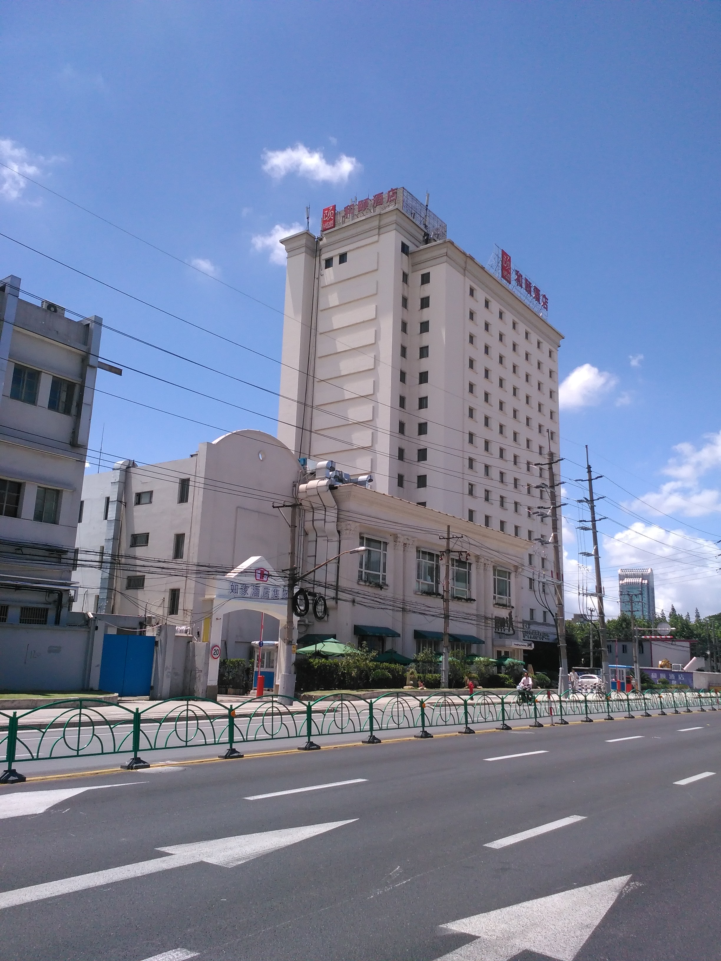 Home Inn headquarters and Yitel Hotel - No.124 Cao Bao Road, Xu Hui District Shanghai 200235, PRC